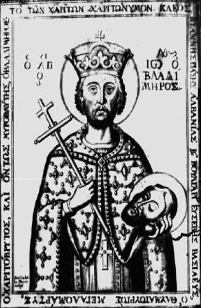 Engraving of Saint Jovan Vladimir, part of his Greek hagiography printed in Venice in 1690